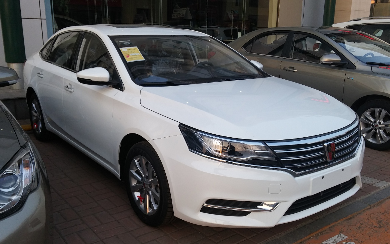 Roewe i6 photographed in Shenyang, Liaoning province, China.